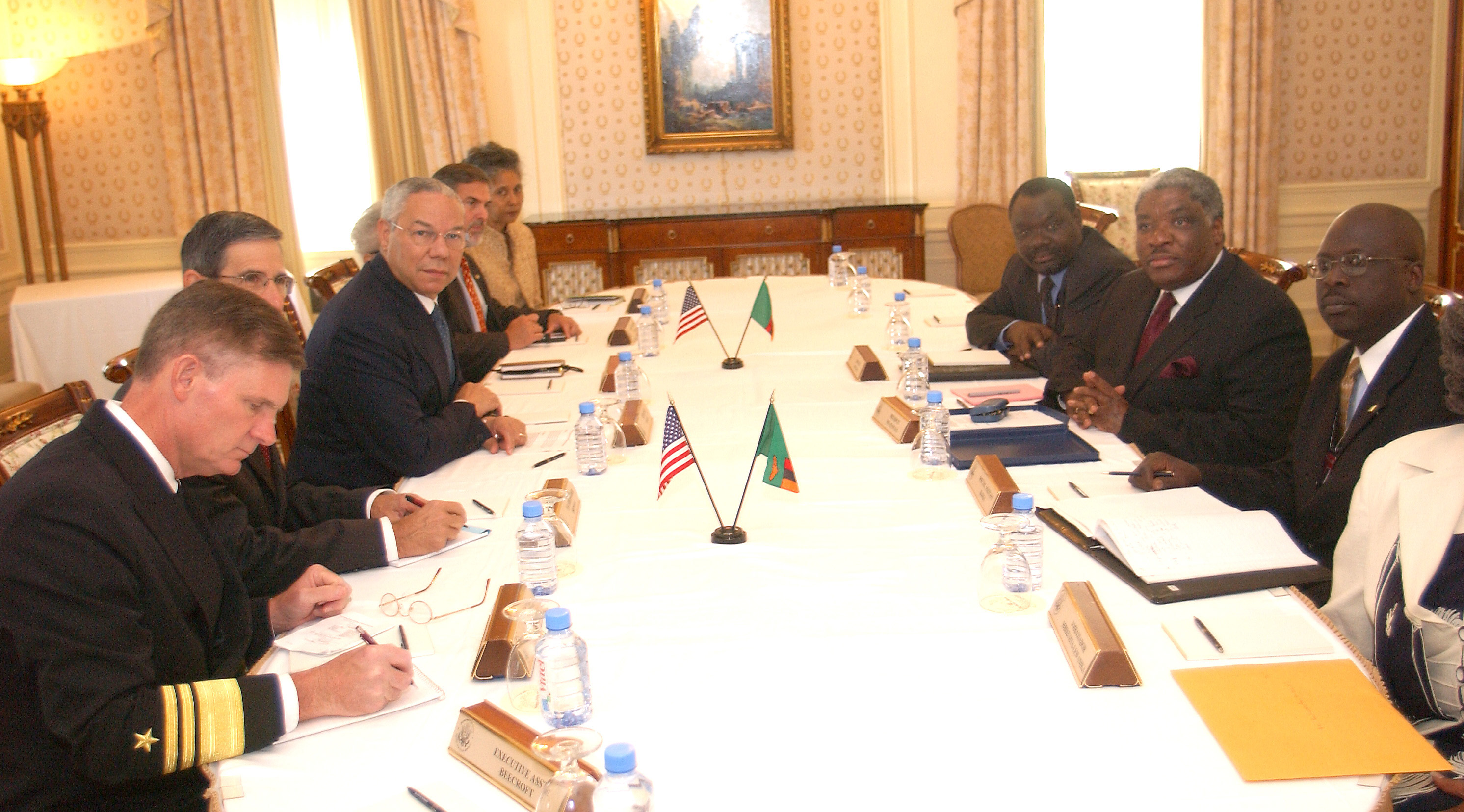 U.S. Secretary of State Colin Powell (fourth from back, left) and President of Zambia Levy Mwanawasa (second from back, right) meet in New York during the 59th UN General Assembly.